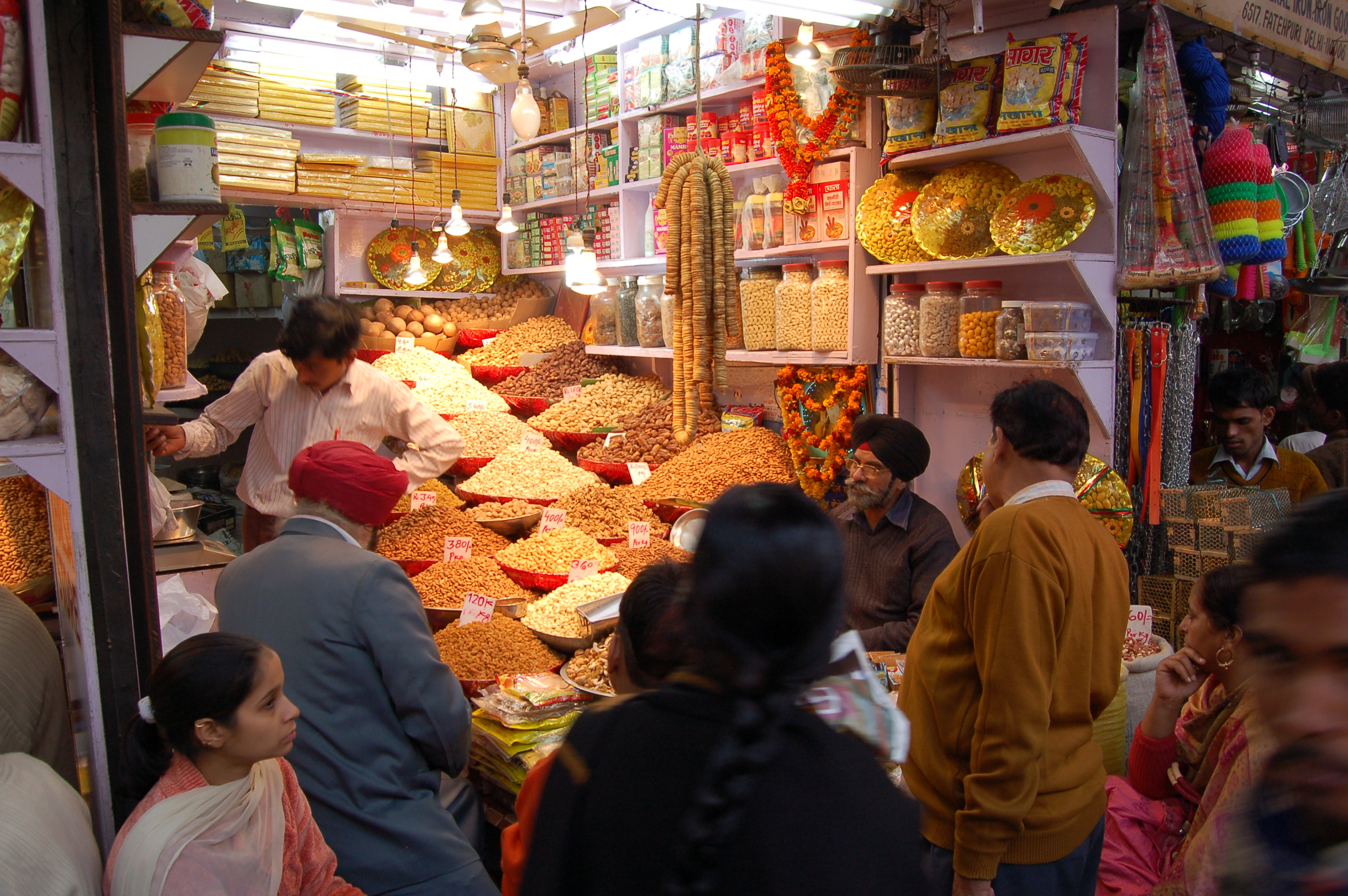 View of a food shop facing Khari Baoli Road, Chandni Chowk, Delhi, India.